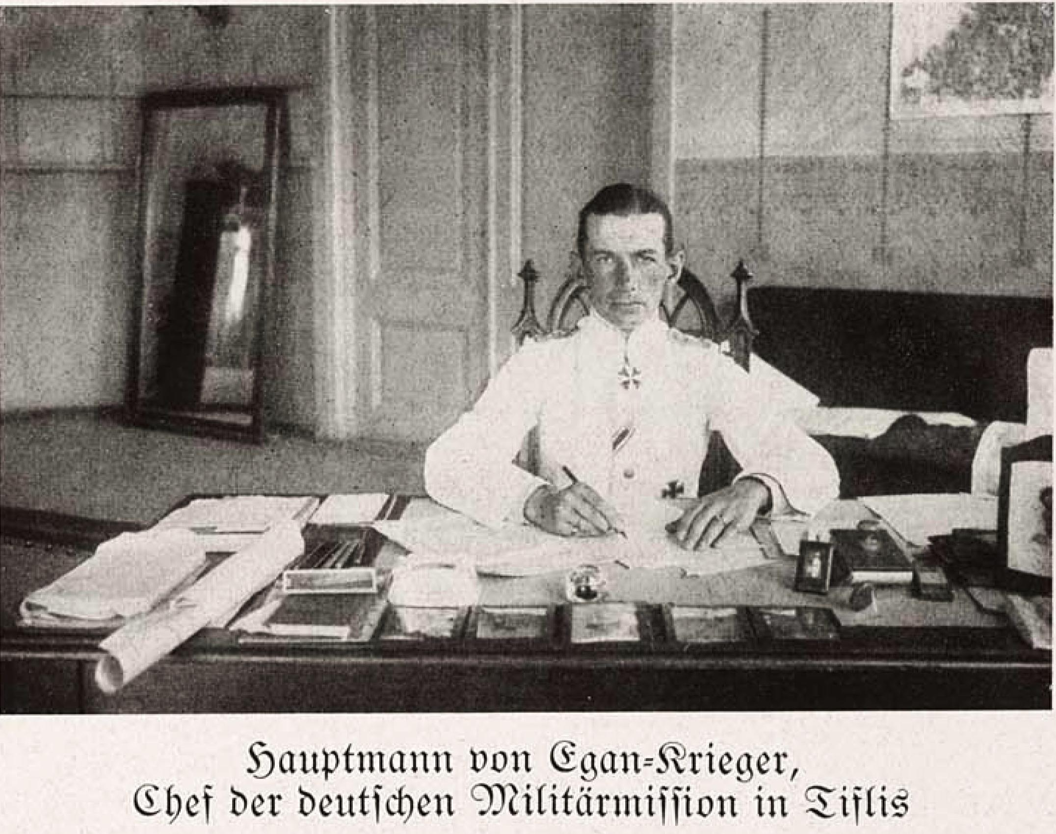 Captain Egan Krieger, head of the German mission in Georgia, 1918